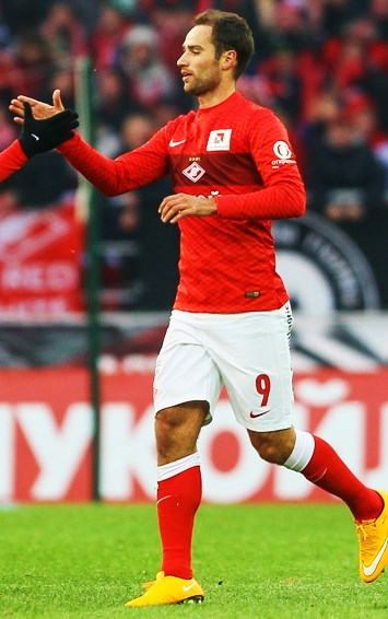 Roman Shirokov